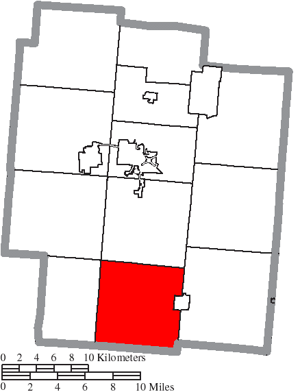 Map of the municipal and township boundaries of Jackson County, Ohio, United States, as of the 2000 census, with the location of Jefferson Township highlighted. Township borders are shown only in unincorporated areas in order to differentiate incorporated and unincorporated areas more clearly.